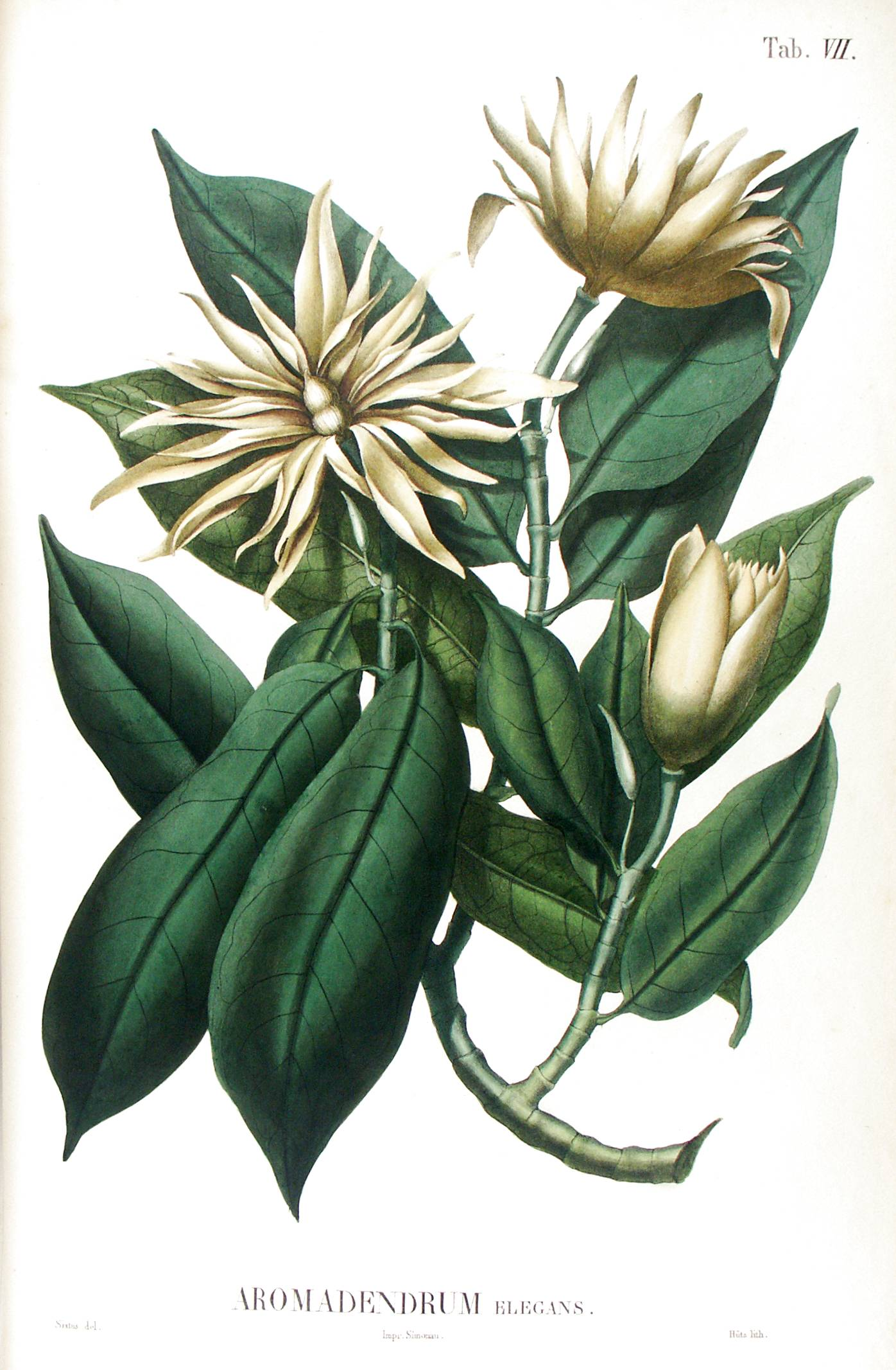 Lithographed, hand-coloured image of Aromadendron elegans Blume, the type species of genus Aromadendron. Plate VII in C.L. Blume, Flora Javae, pars 19-20 Magnoliaceae (1829).